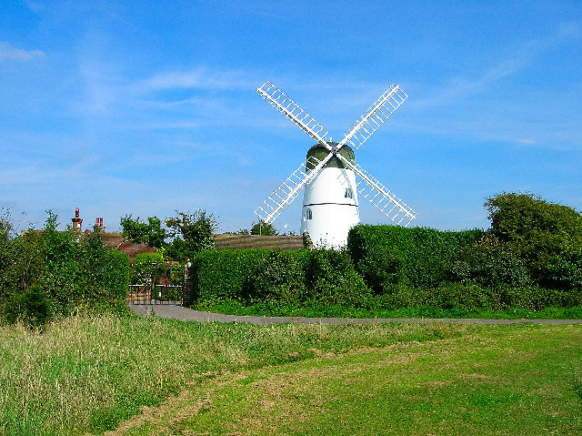 Photograph of Patcham windmill